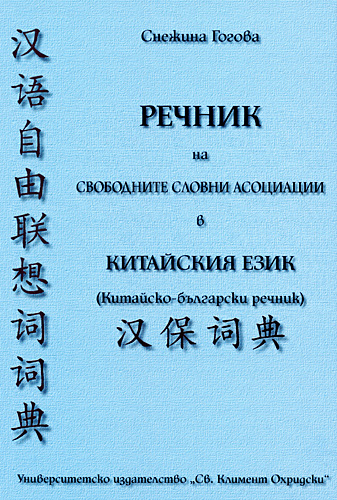 Snejina Gogova Book Title